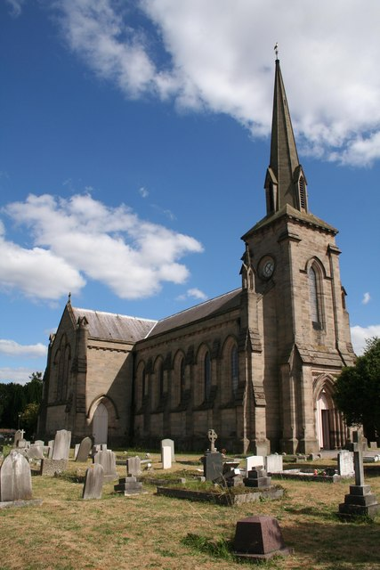 St. Martins Church. On the Ross Road in South Hereford.